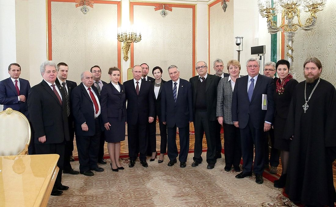 Alexander Oganovich Chubarian among creators of the new concept of Russian history, January 16, 2014.